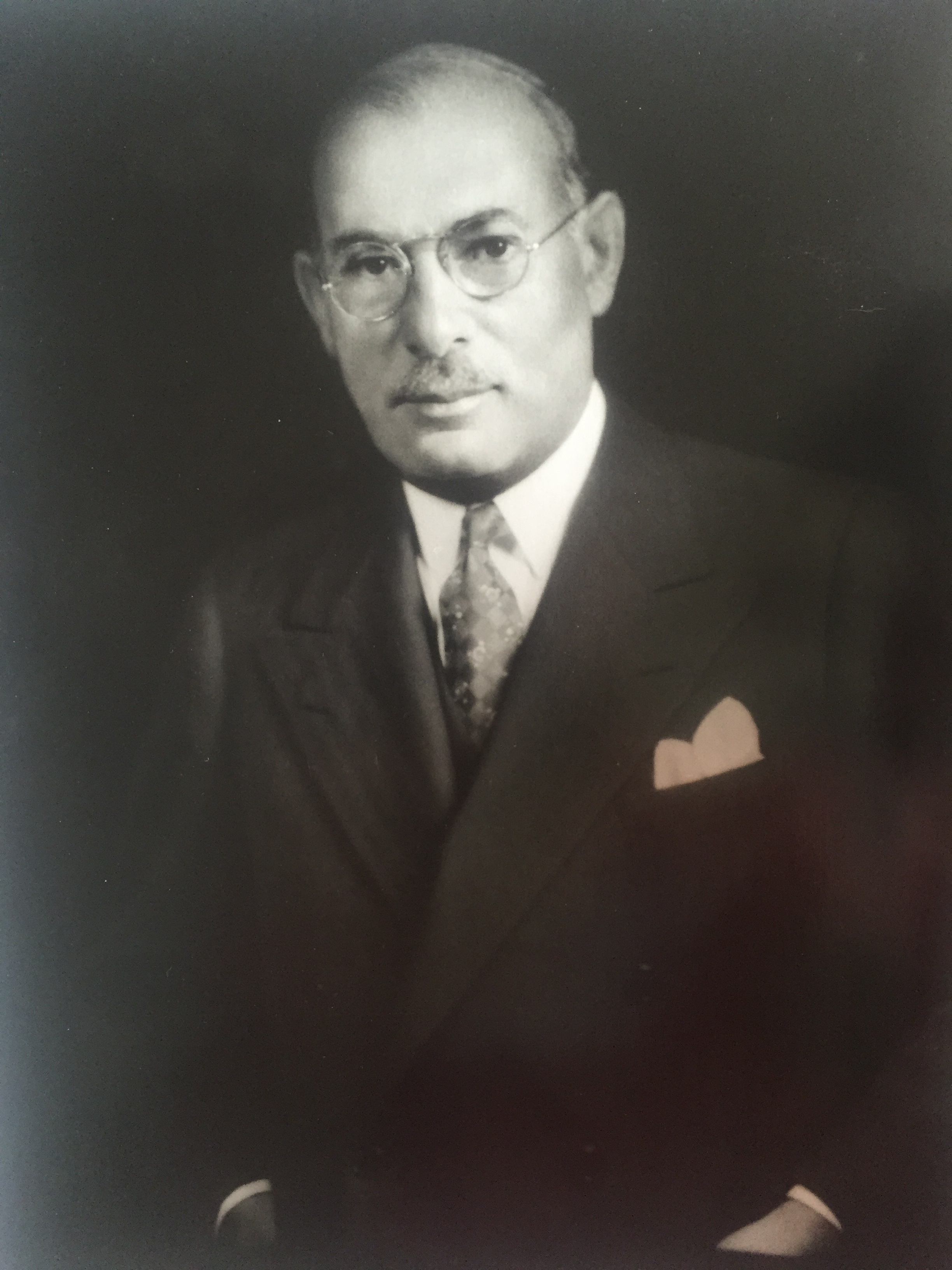 Photograph of Max Blumberg